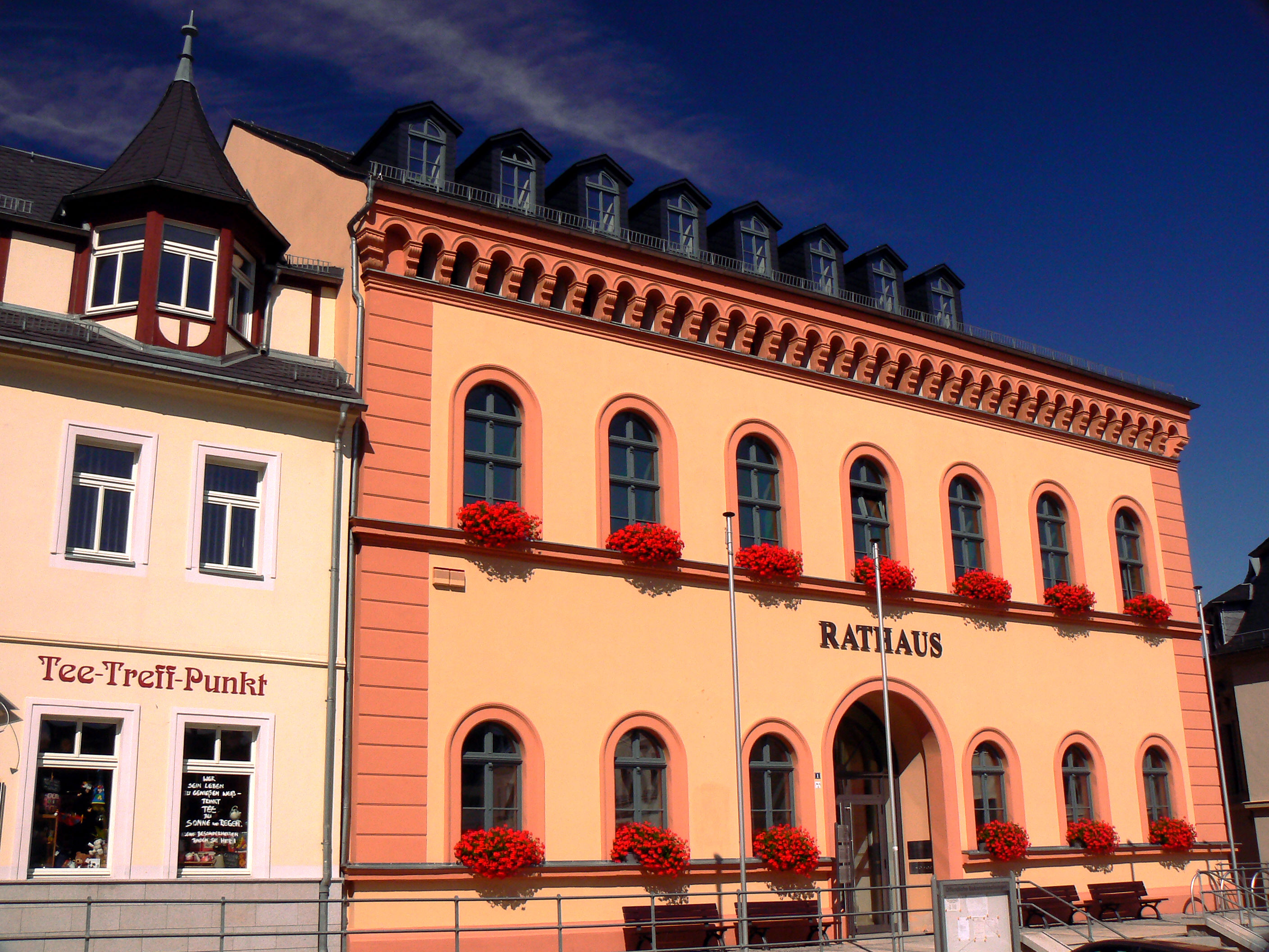 Reichenbach im Vogtland city hall.